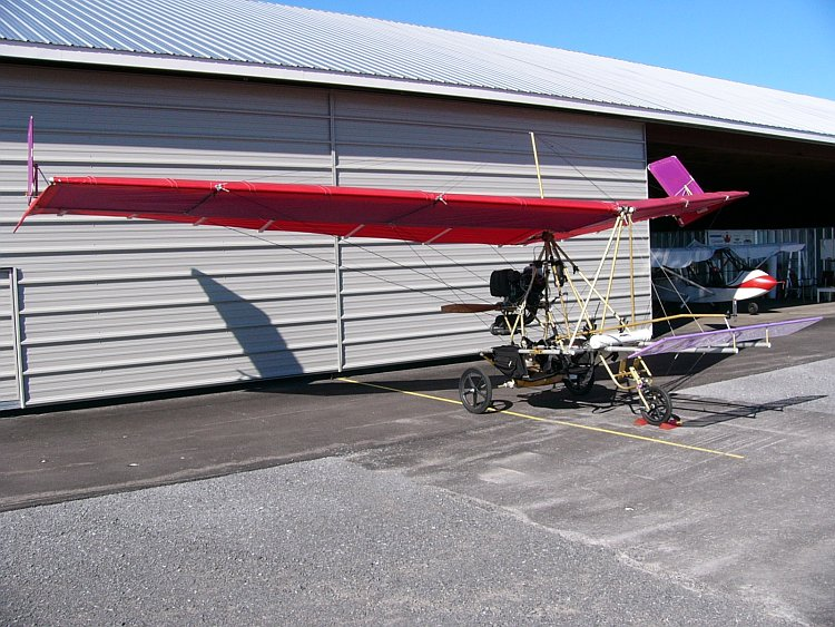 I took this photo of a DFE Ascender III-C in 2004.